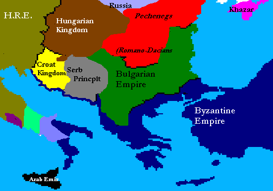 Created by Dr Robert George (2007). Based on various references including Shepherds History, , The Balkans: From Constantinople to Communism (D P Hupchik), DAI. May be used as long as it is done so in good faith and acknowledges creator. Hxseek 01:07, 4 October 2007 (UTC)